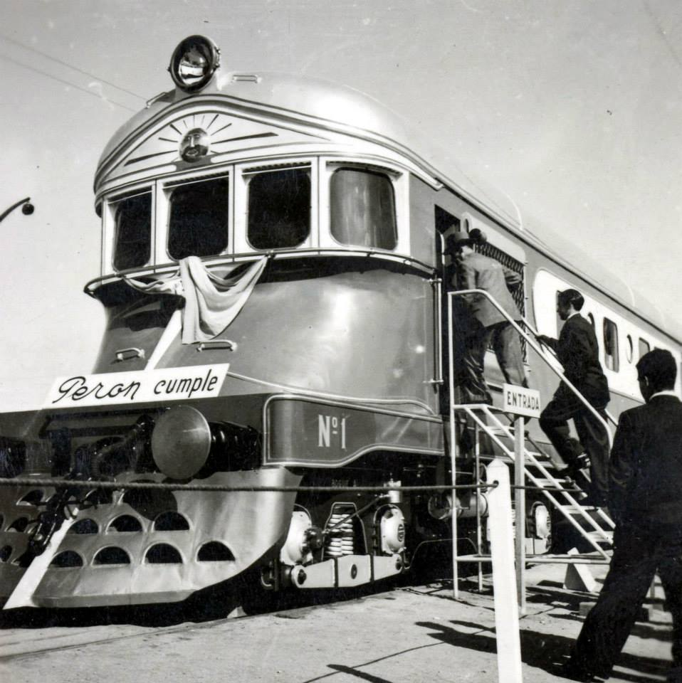 Photo of CM1 "Justicialista", one of two diesel locomotives manufactured by Fábrica Argentina de Locomotoras (FADEL).